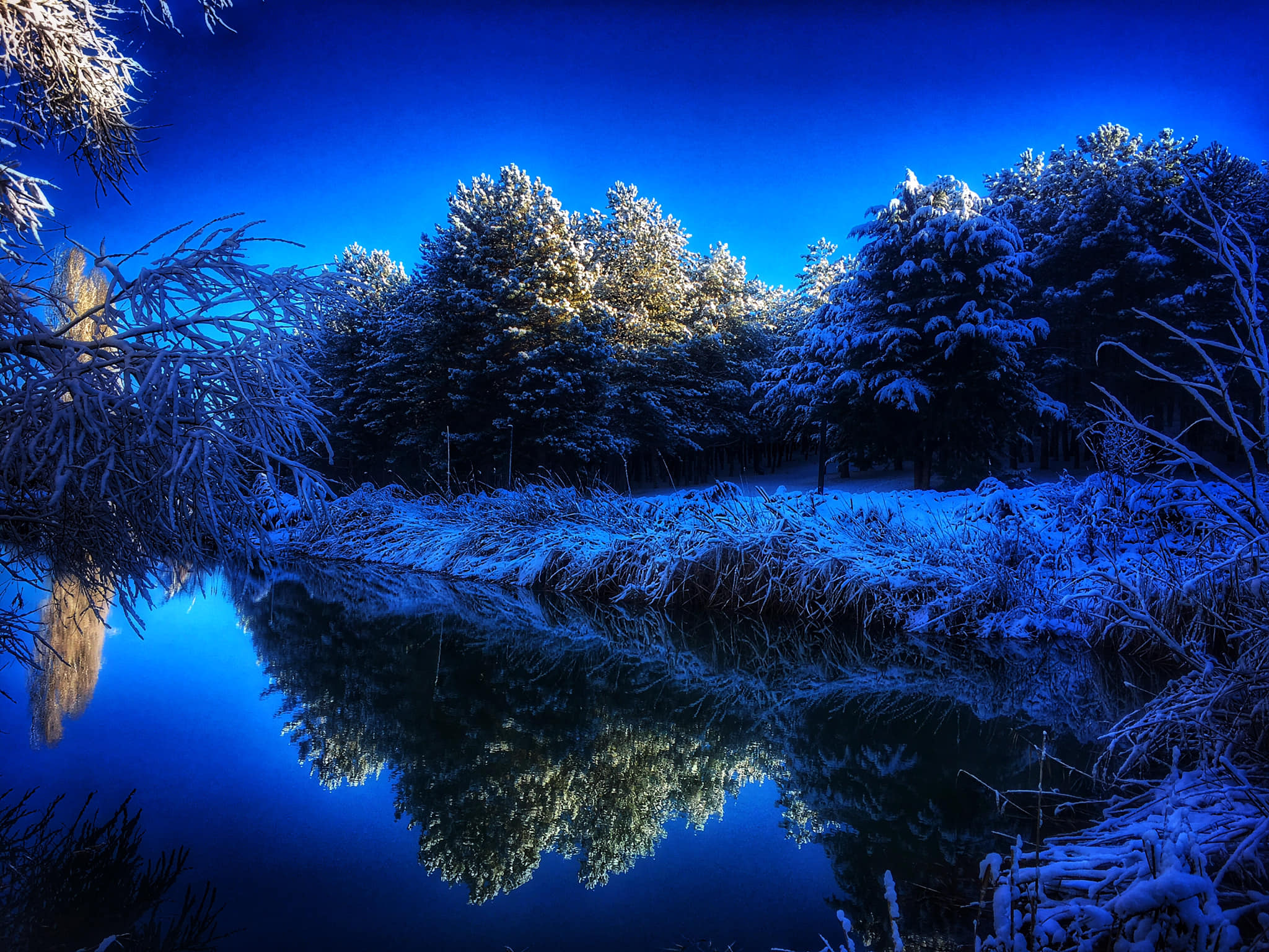 Hacettepe University, Ankara, Turkey